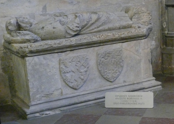 Borivoj II, Duke of Bohemia